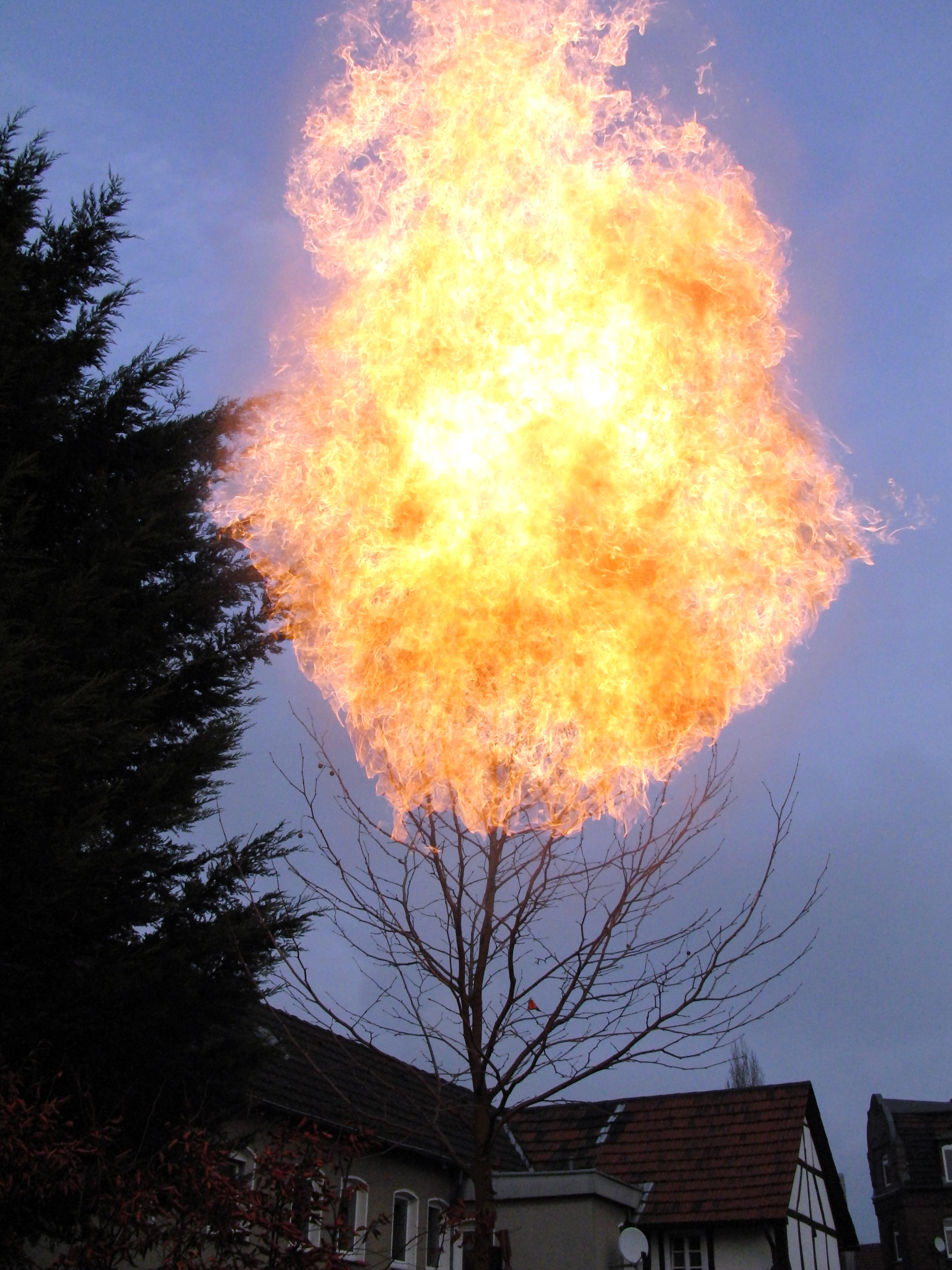 1" Pyranoscope in ignition phase